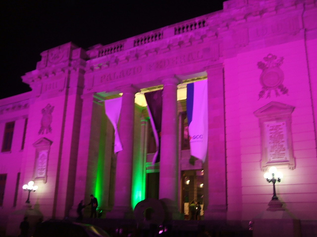 The Federal Palace of Chihuahua fully illuminated for a special occasion